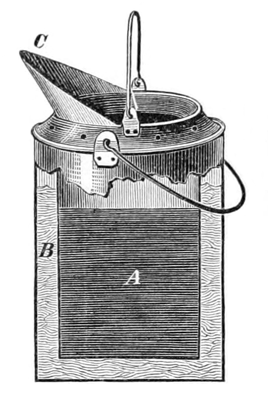 A kettle used for making "composition", a mixture of glue and molasses or treacle and later glycerin, which was poured out to make rollers for inking type in letterpress printing. The ink adhesion and flexibility properties of a composition roller meant that it was more suitable than either leather or rubber for its purpose. Key: A = inner boiler filled with composition. B = outer boiler filled with water. C = pouring spout.